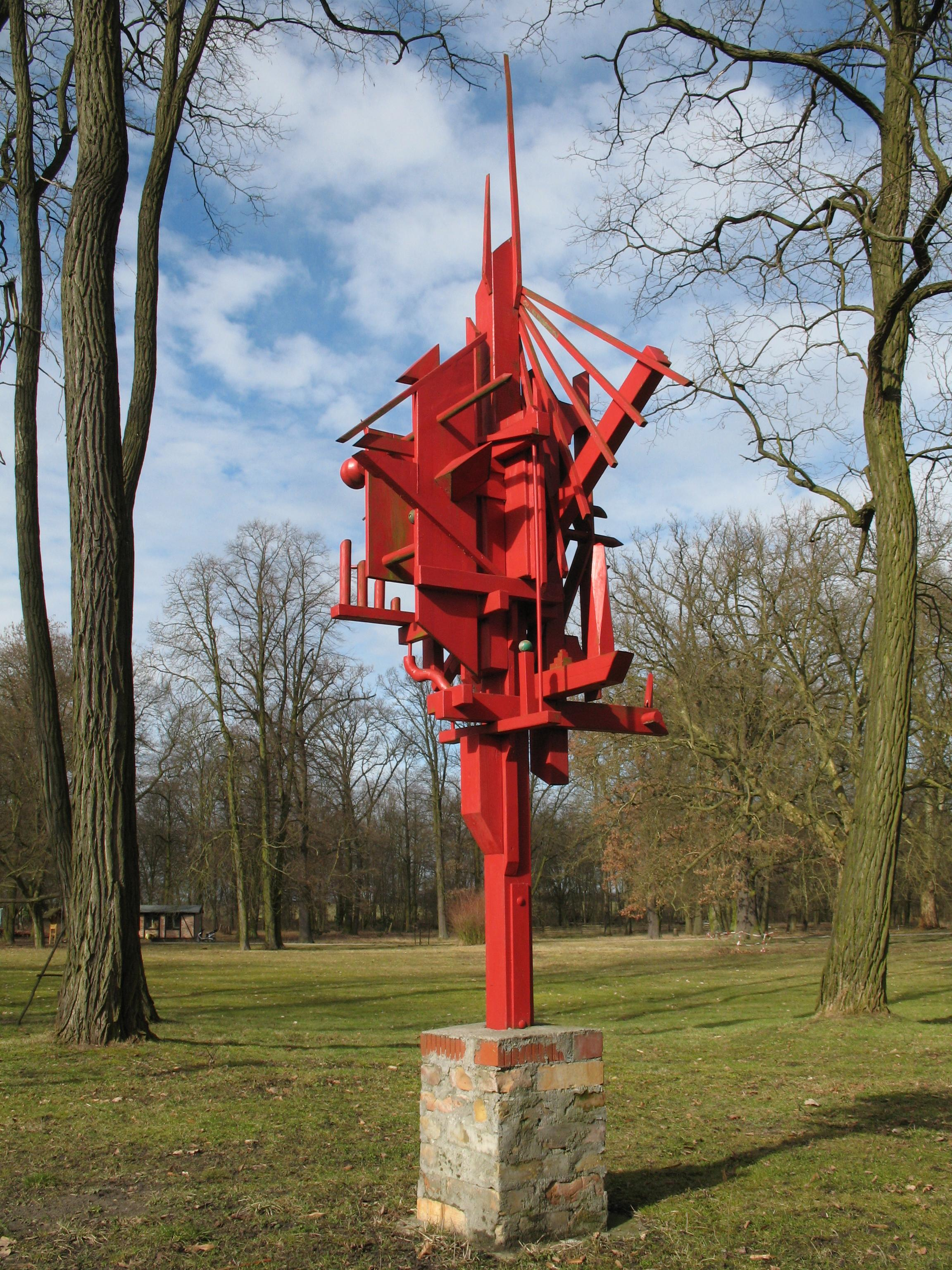 „Tre Colori Uno“ in Bernau-Börnicke in Brandenburg, Germany